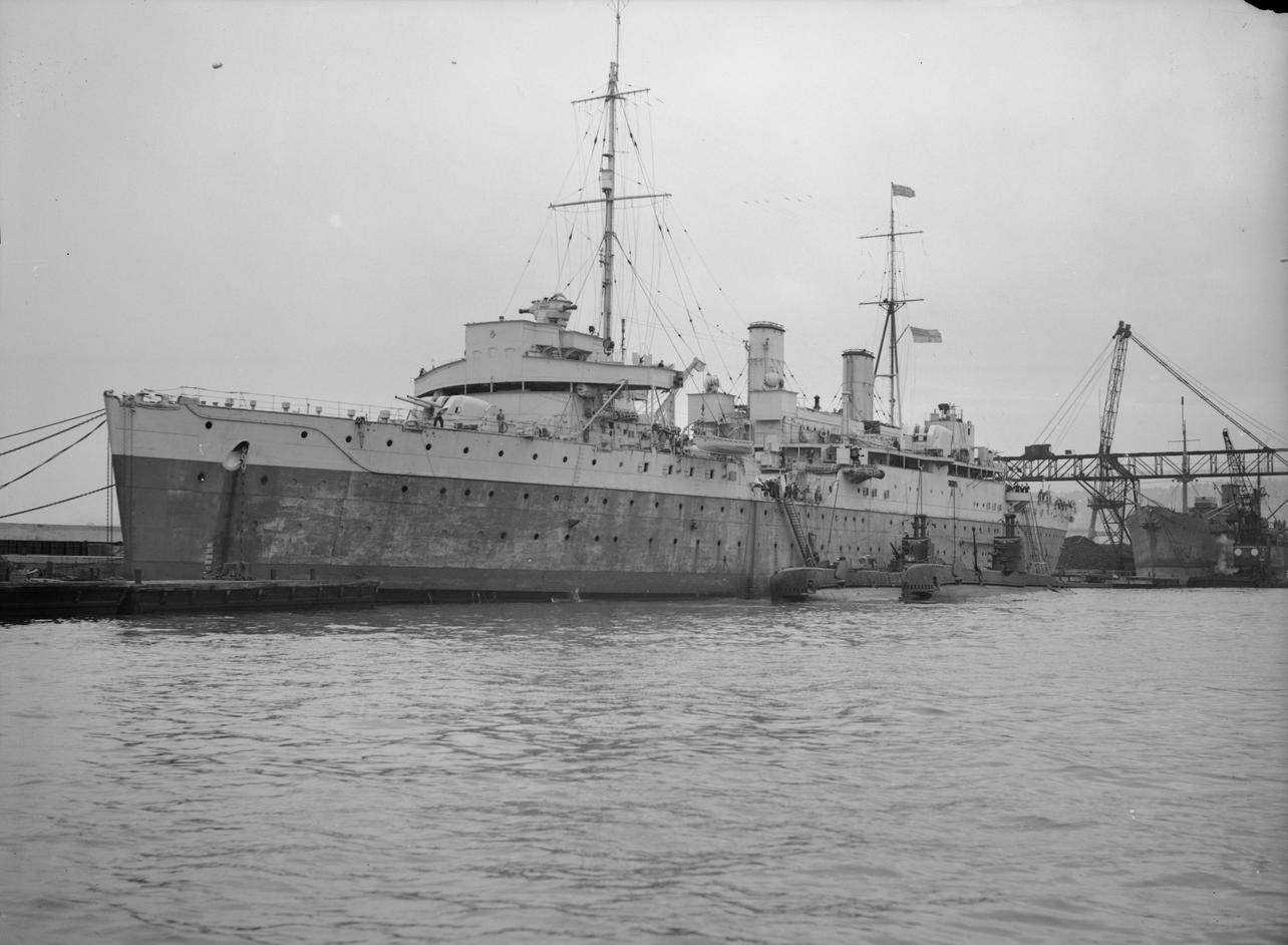 HMS MAIDSTONE, submarine depot ship, berthed in the harbour at the North African port of Algiers. Lying alongside are two famous submarines, SAFARI and SAHIB. So great were their successes against Axis shipping, that they were known as the "Old Firm" and "Foundation members" to the rest of the Royal Navy.